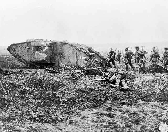 (W.W.I - 1914 - 1918) Mark II female Tank Number 598 advancing with Infantry at Vimy